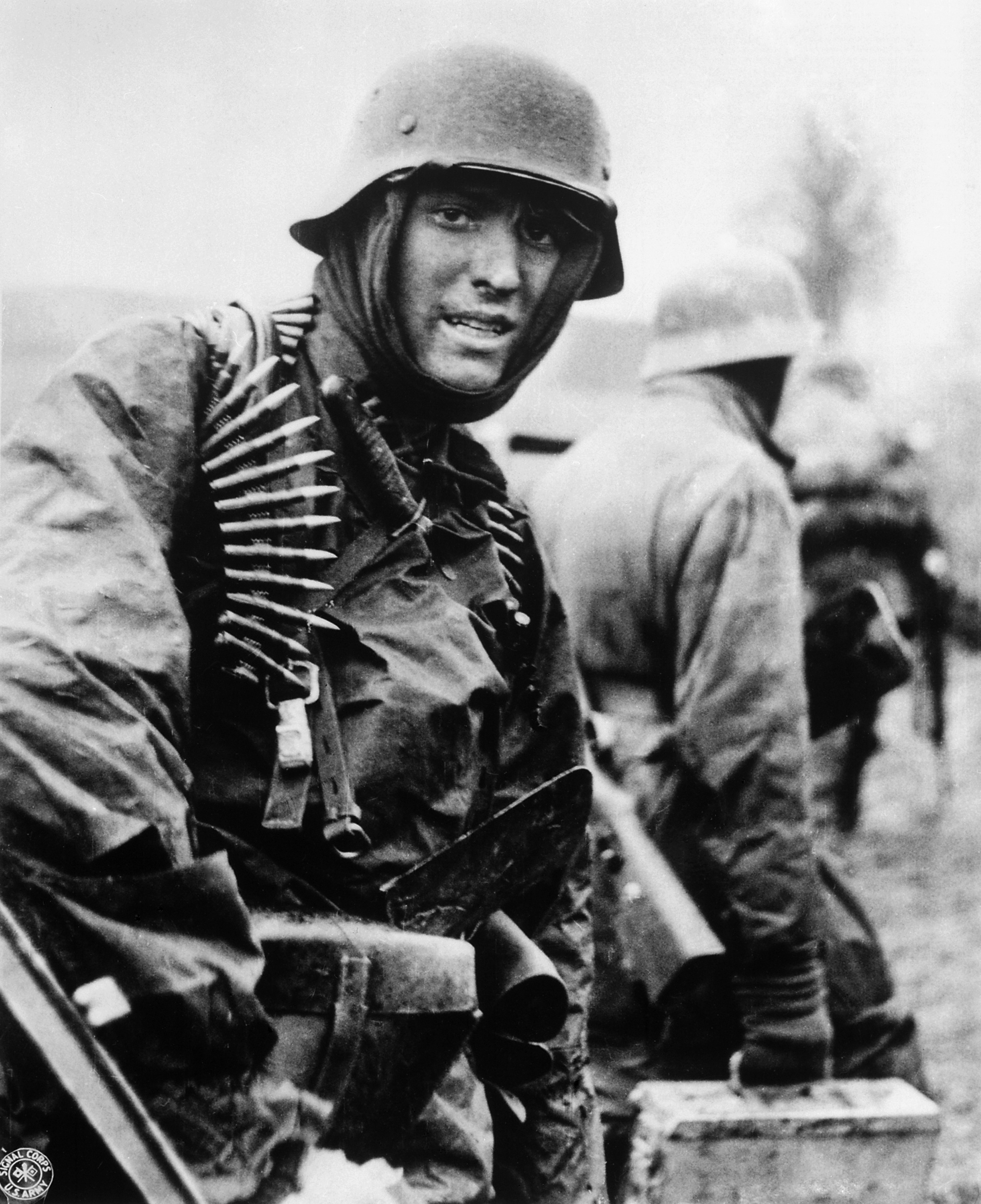 Original description:"A German soldier, heavily armed, carries ammunition boxes forward with companion in territory taken by their counter-offensive in this scene from captured German film. Belgium, December 1944." A member of Kampfgruppe Hansen, they ambushed and completely destroyed the U.S. 14th Cavalry Group on the road between Poteau and Recht.